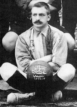 Horace Armitage Cadi-Keuy FC Founder, Galatasaray SK Football Manager